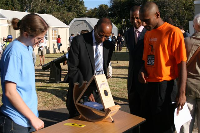 During the partial eclipse of the sun, the International Year of Astronomy 2009 was officially opened at the South African Astronomical Observatory in Cape Town by the Minister of Science and Technology, Mosibudi Mangena.